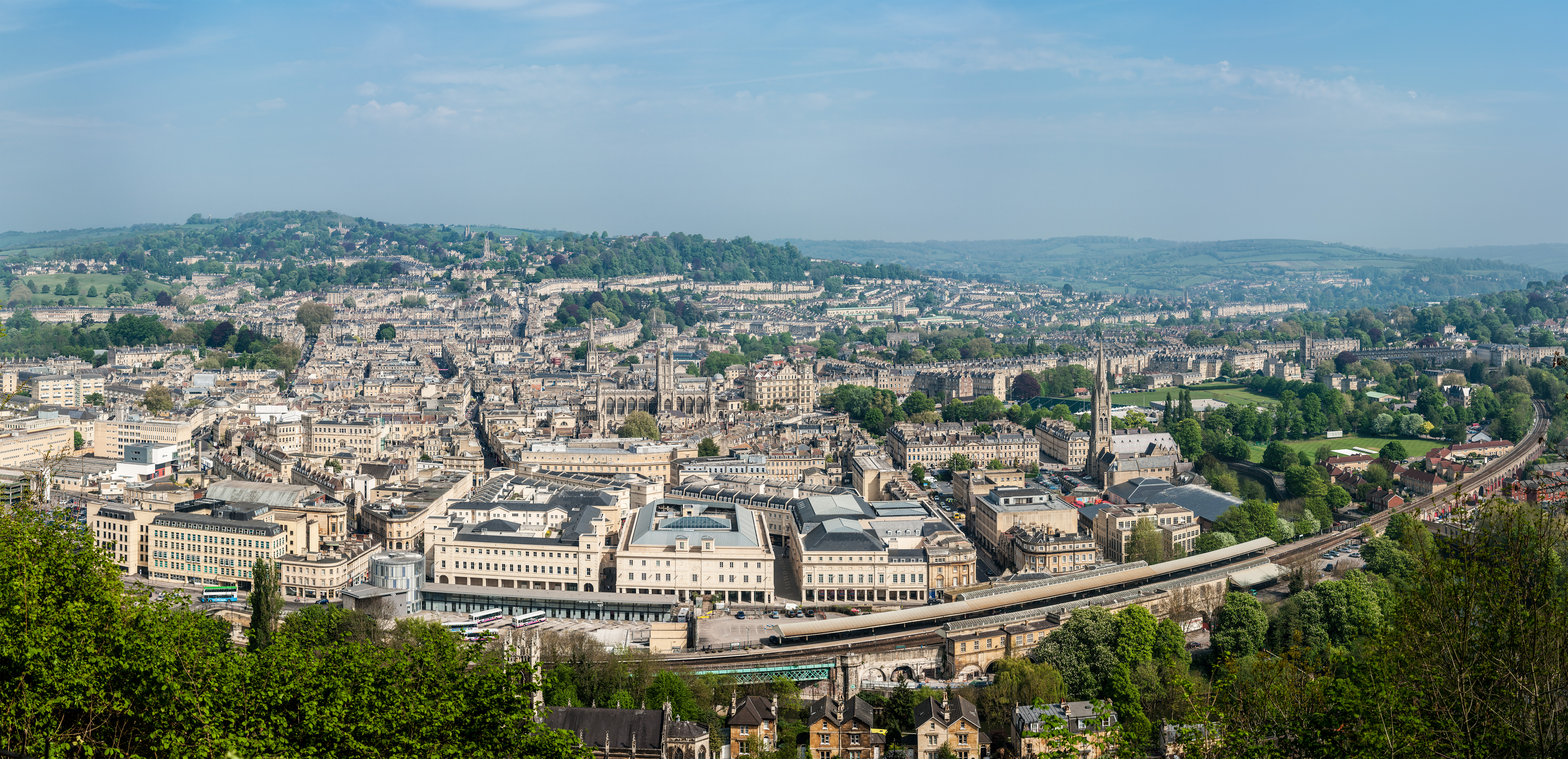 A 21 segment (7 x 3) panoramic image of the City of Bath in Somerset, England. Viewed from the south in Alexandra Park. Taken by myself with a Canon 5D and 100mm f/2.8 lens.